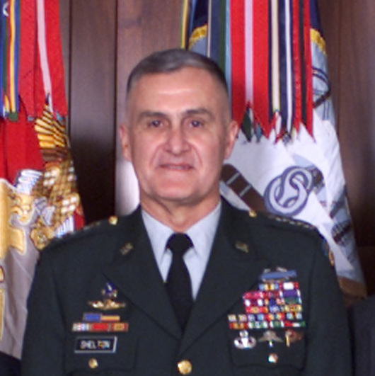 Gen. Henry H. Shelton, Chairman of the Joint Chiefs of Staff, hosted a one-day conference today in the Pentagon for former chairmen of the Joint Chiefs of Staff. The meeting was held to update the former chairmen, who collectively have more than 200 years of distinguished military experience, and to seek their perspective on a number of issues. Standing from left to right are: Gen. Colin L. Powell, USA (Ret); Gen. John W. Vessey, USA (Ret); Adm. Thomas H. Moorer, USN (Ret); Gen. Shelton, USA; Gen. David C. Jones, USAF (Ret); Adm. William J. Crowe, Jr., USN (Ret); and Gen. John M. Shalikashvili, USA (Ret).